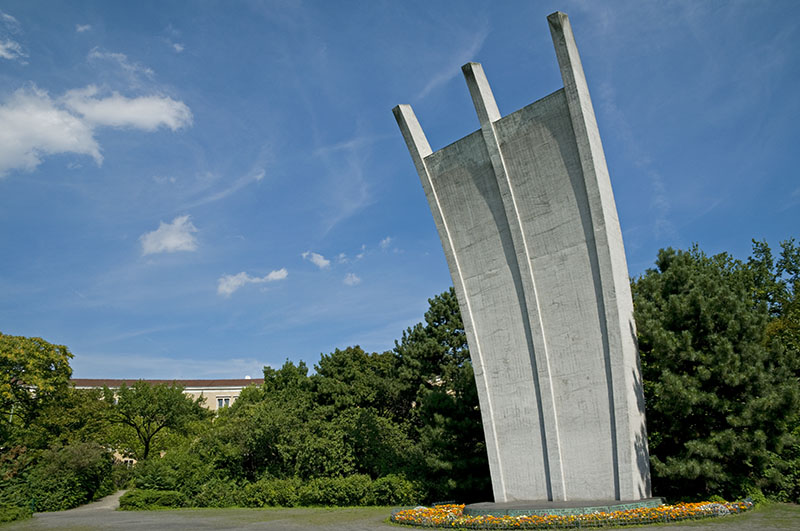 The Berlin Airlift Memorial, at the former Tempelhof Airport, in West Berlin, erected in 1951, symbolises the eastern buttress of the bridge. It is complemented by similar structures at Frankfurt Airport and at Celle Air Base (30 km NE of Hanover), each of which symbolise the western buttress of the bridge.